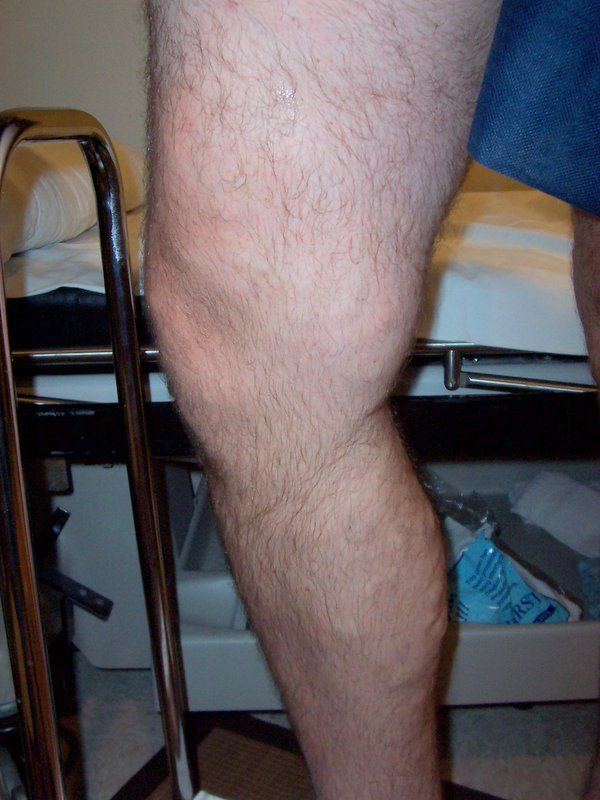 Picture by me from Georgia Vein Specialists. Varicose vein after treatment by endovenous laser therapy (EVLT). Behind lower shin lateral veins that should resolve the mini-phlebotomy or sclerosing foam.